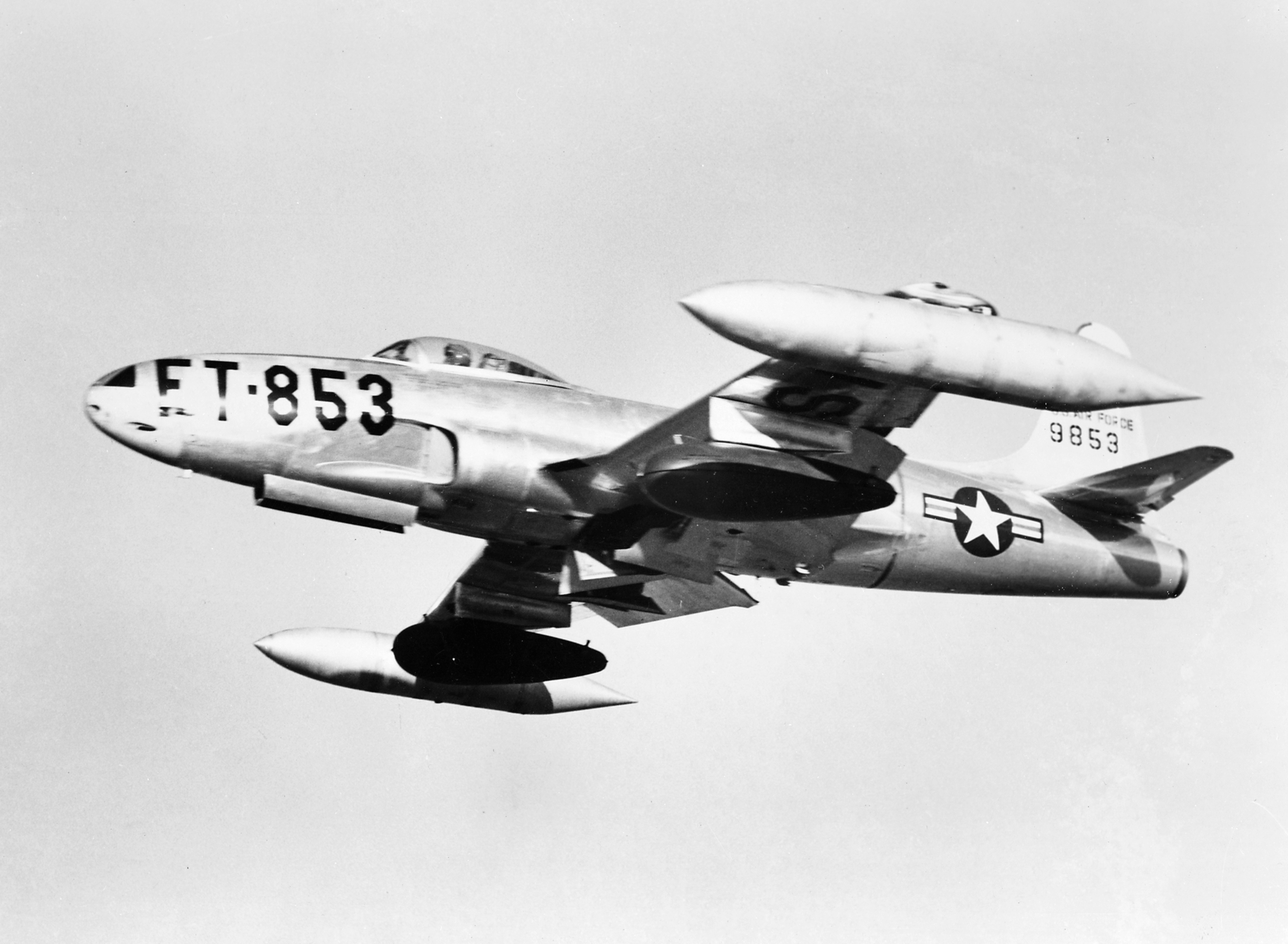 A U.S. Air Force Lockheed F-80C-10-LO Shooting Star (s/n 49-853) armed with napalm bombs takes off on 1 February 1951 from a Korean airfield.